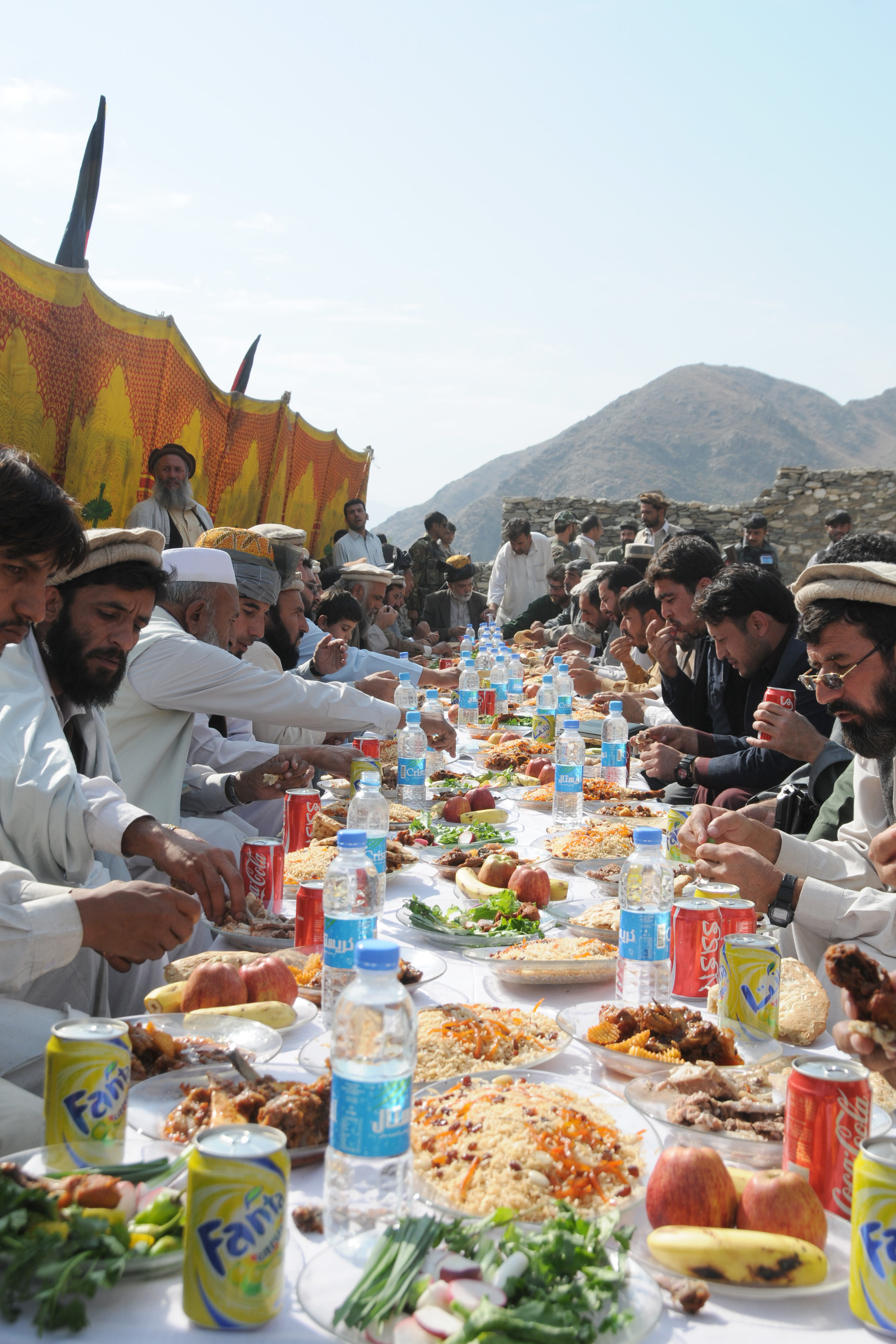 Original caption: Immediately following a ribbon cutting ceremony, the ceremonial first vehicle crossing and the unveiling of a historical plaque, Kunar provincial government leaders celebrate the opening of the Khas Kunar Truck Bridge with a feast served in typical Afghan "family style" Nov. 5, 2009. The bridge across the Konar River was a joint project between Provincial Reconstruction Team-Kunar and the local Afghanistan government. Construction started 24 months ago and represents a $1.68 million investment that paves the way for increased security and commerce in the Khas Kunar district. (Kunar Provincial Reconstruction Team Photo by Tech. Sgt. Brian Boisvert)